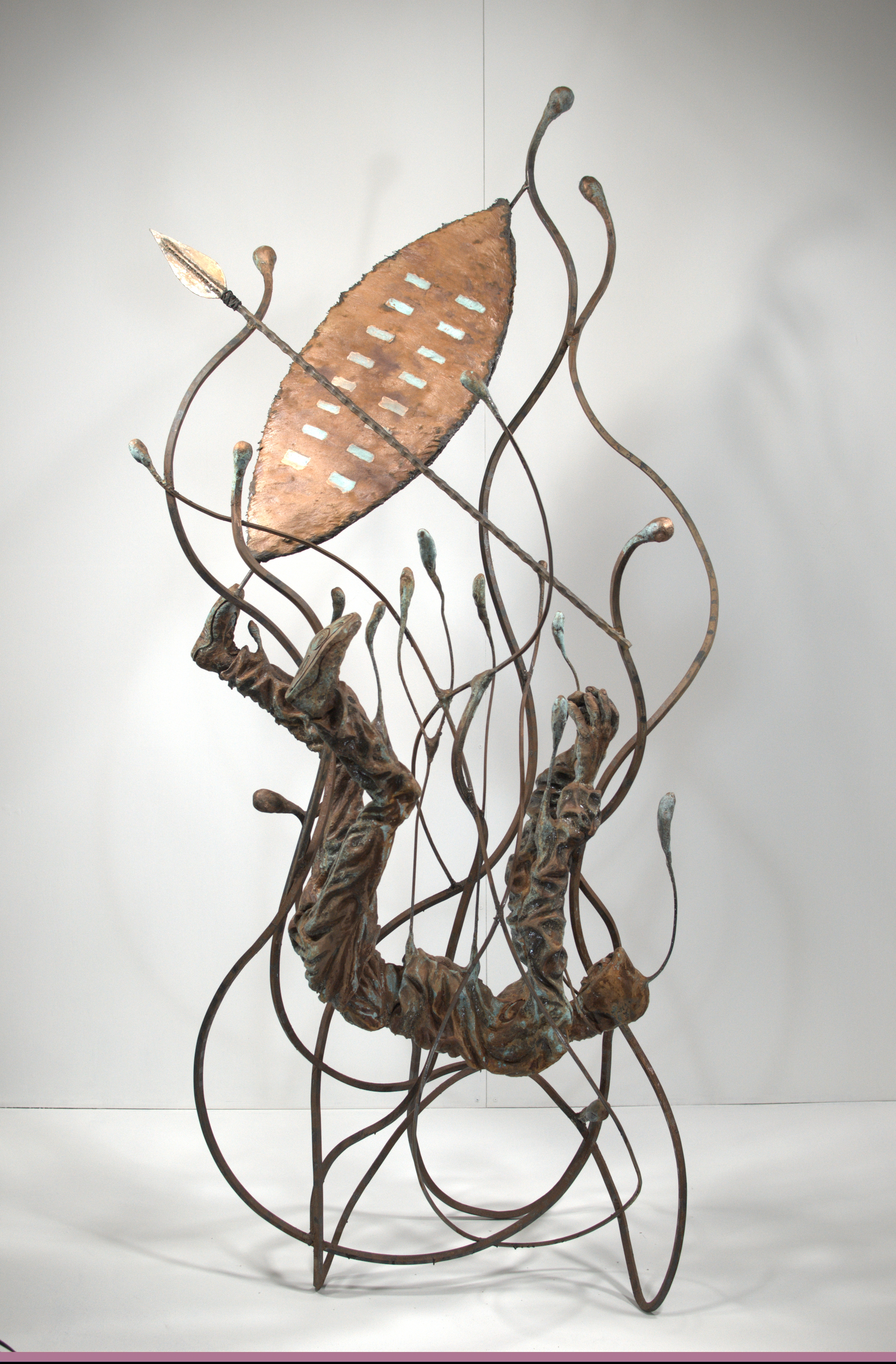 Sculpture